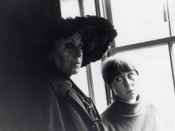 Louise Nevelson and Neith Nevelson. Previously unpublished picture.